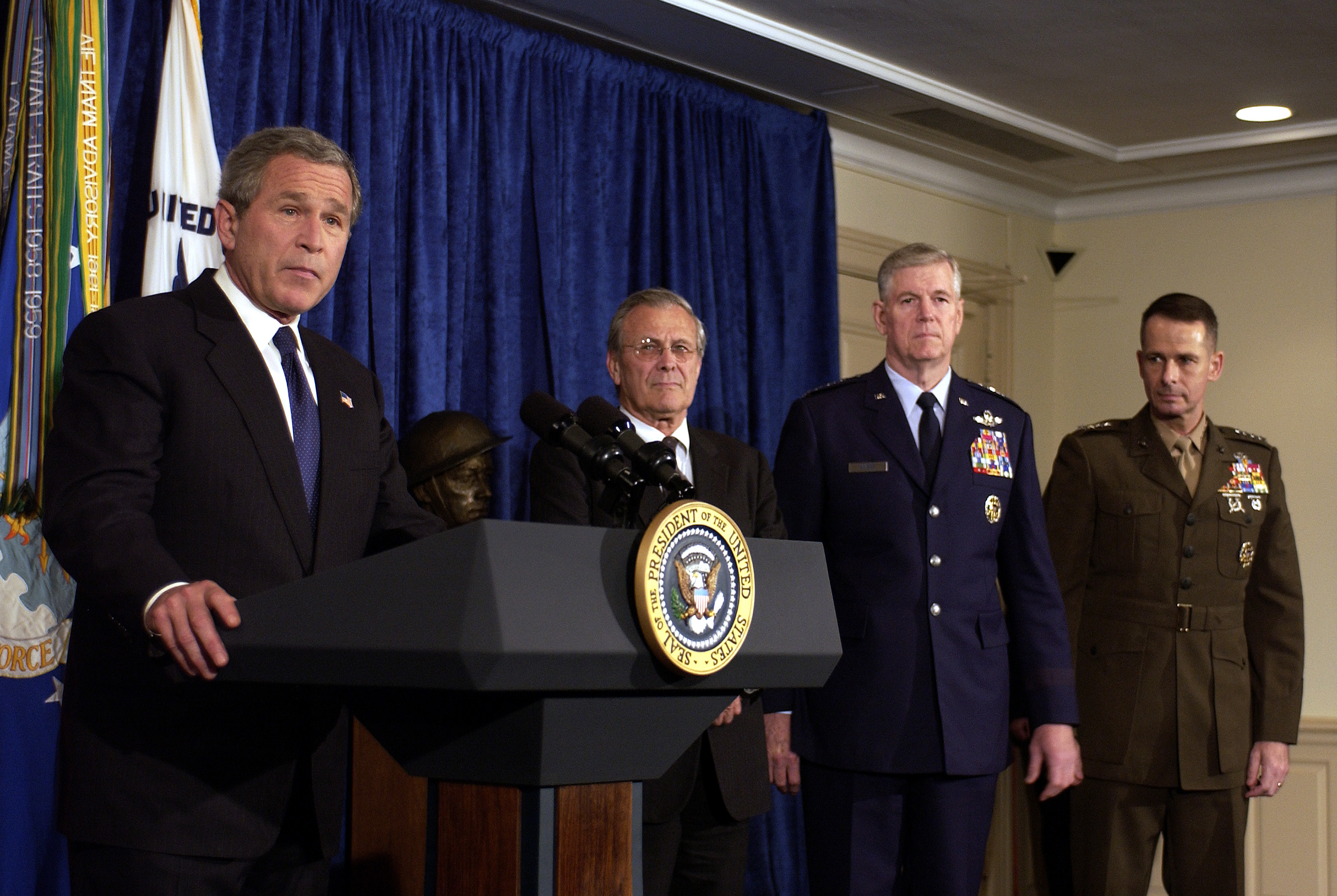 President George W. Bush makes a statement to the press in the Pentagon on May 10, 2004, as Secretary of Defense Donald H. Rumsfeld, Chairman of the Joint Chiefs of Staff Gen. Richard B. Myers and Vice Chairman of the Joint Chiefs of Staff Gen. Pete Pace look on.